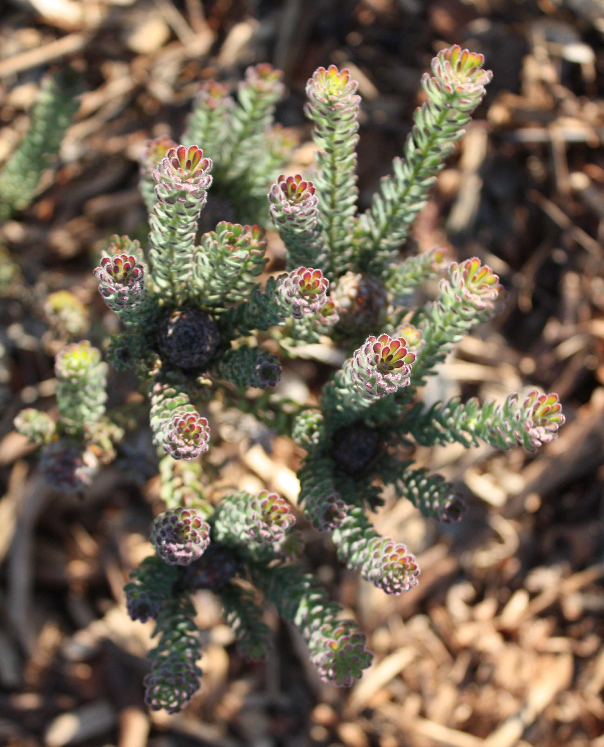 Leucadendron levisanus - critically endangered Cape Flats Cone Bush - Cape Town - Cape Flats Sand Fynbos.